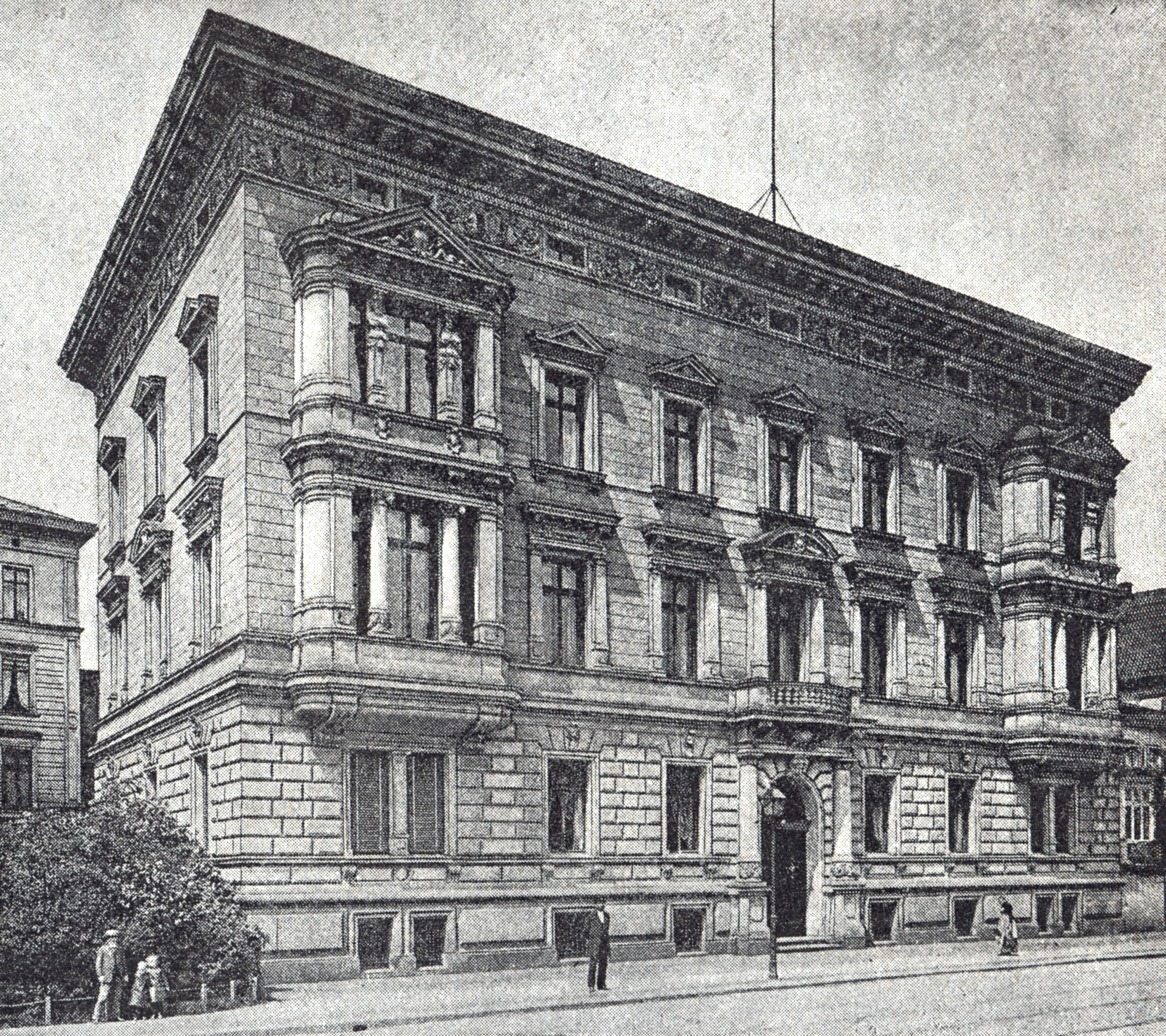 House of Max Meyer, An der Pleiße 9-10, Leipzig